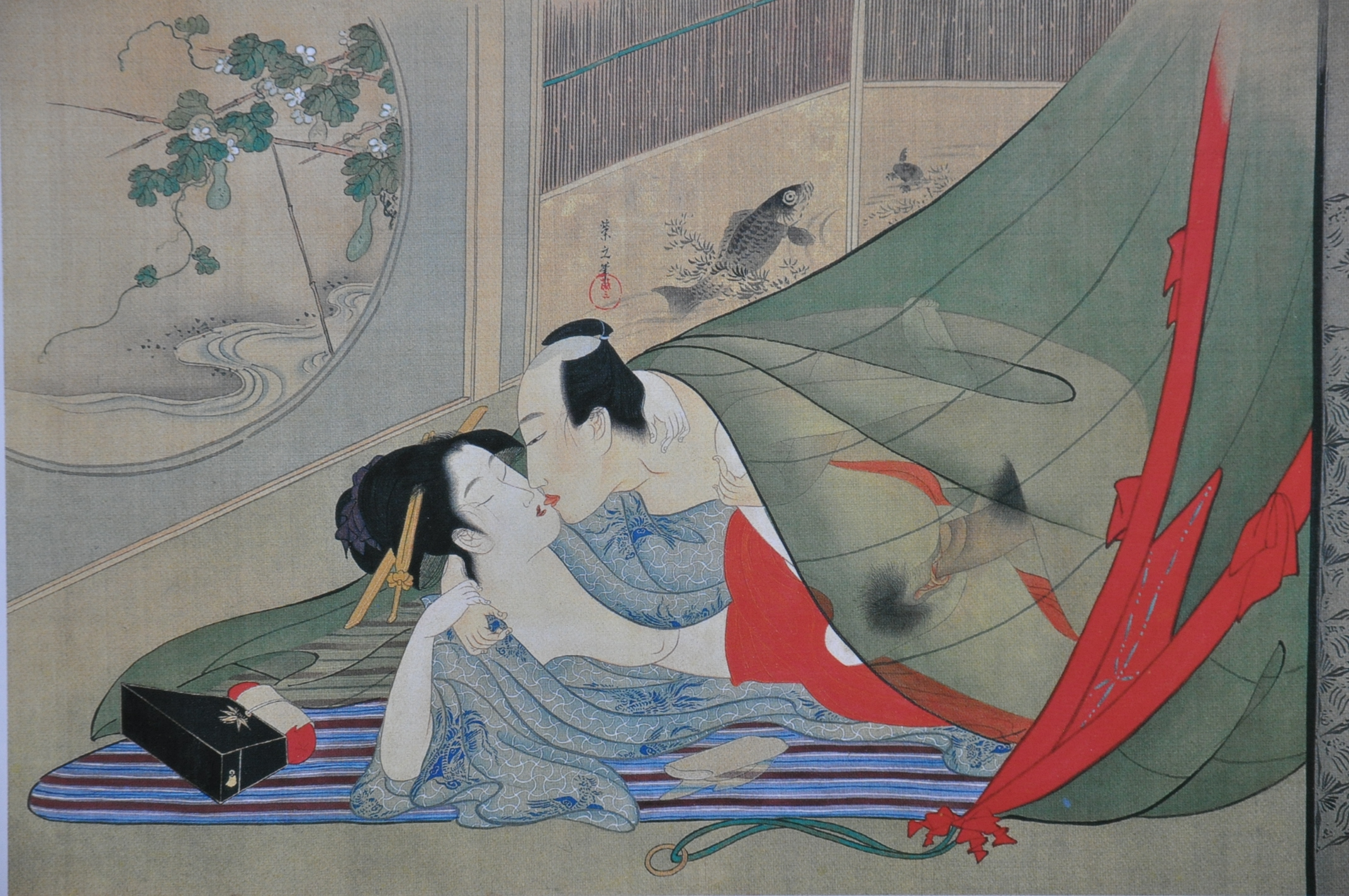 Shunga painting on silk by Chôbunsai Eishi : one out of four similar kakemonos, a series names Pleasure Competition in the Four Seasons. This specific painting describes 'Summer,' as evidenced by the mosquito net and the flowers of the calabash tree, which can be seen from the window to the left.